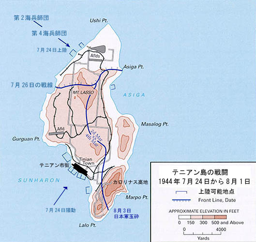 Image:Battle of Tinian map.jpg を基に日本語化